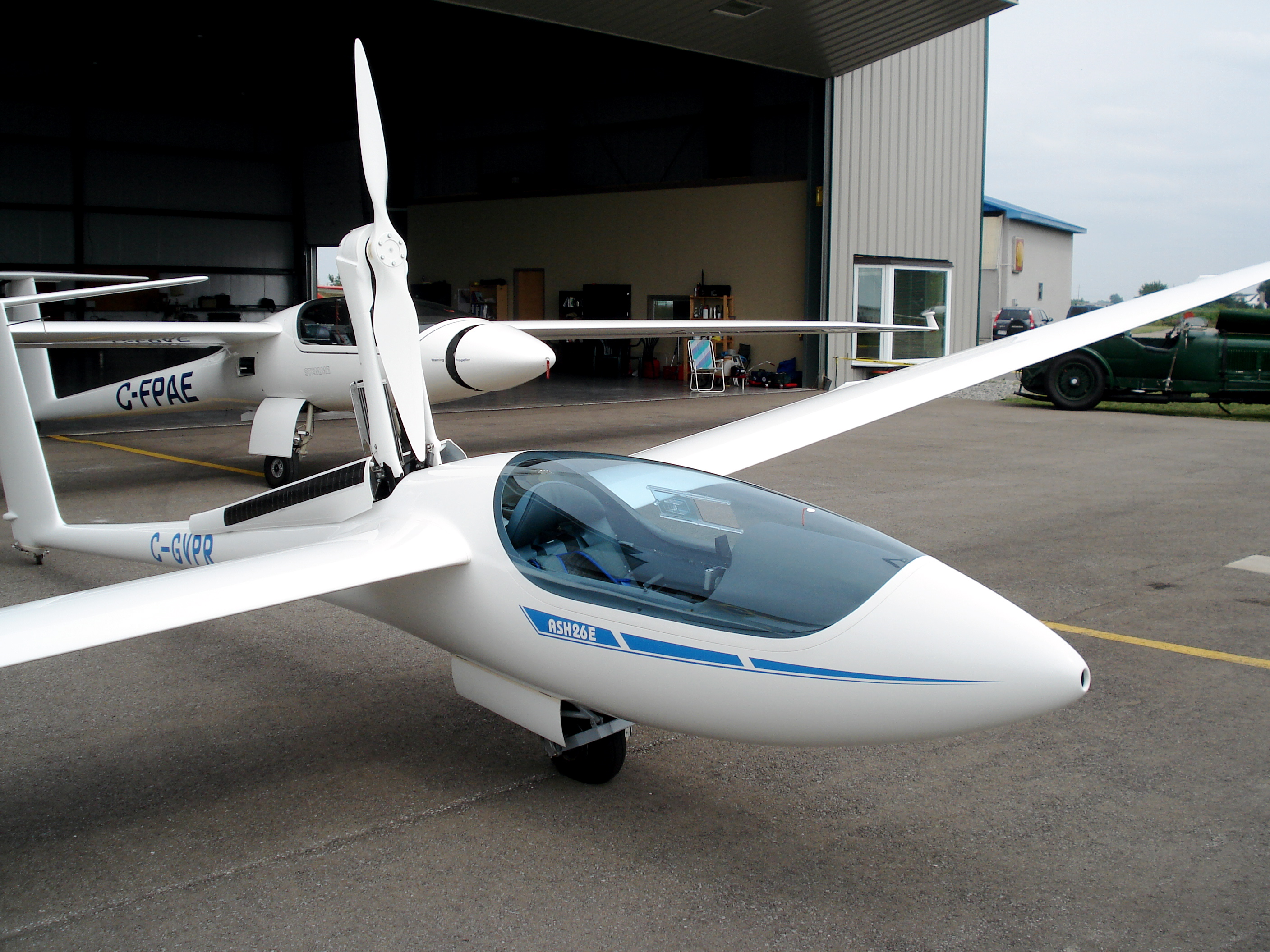 Schleicher ASH 26E sailplane with a Stemme S10 in the background. Photo taken on August 26, 2006 at St. Catharines Airport. Source: Photo by me, User:Balcer.